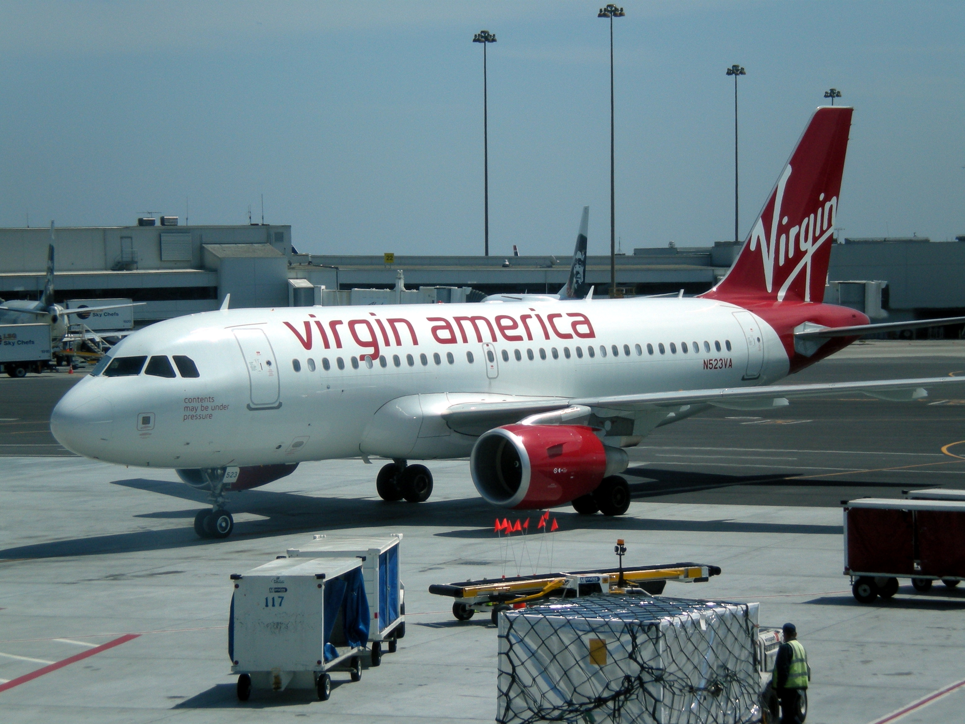 "Contents May Be Under Pressure" (N523VA) at SFO's Gate A1. Gate A1 is one of three two-jetway gates that can accommodate two aircraft.